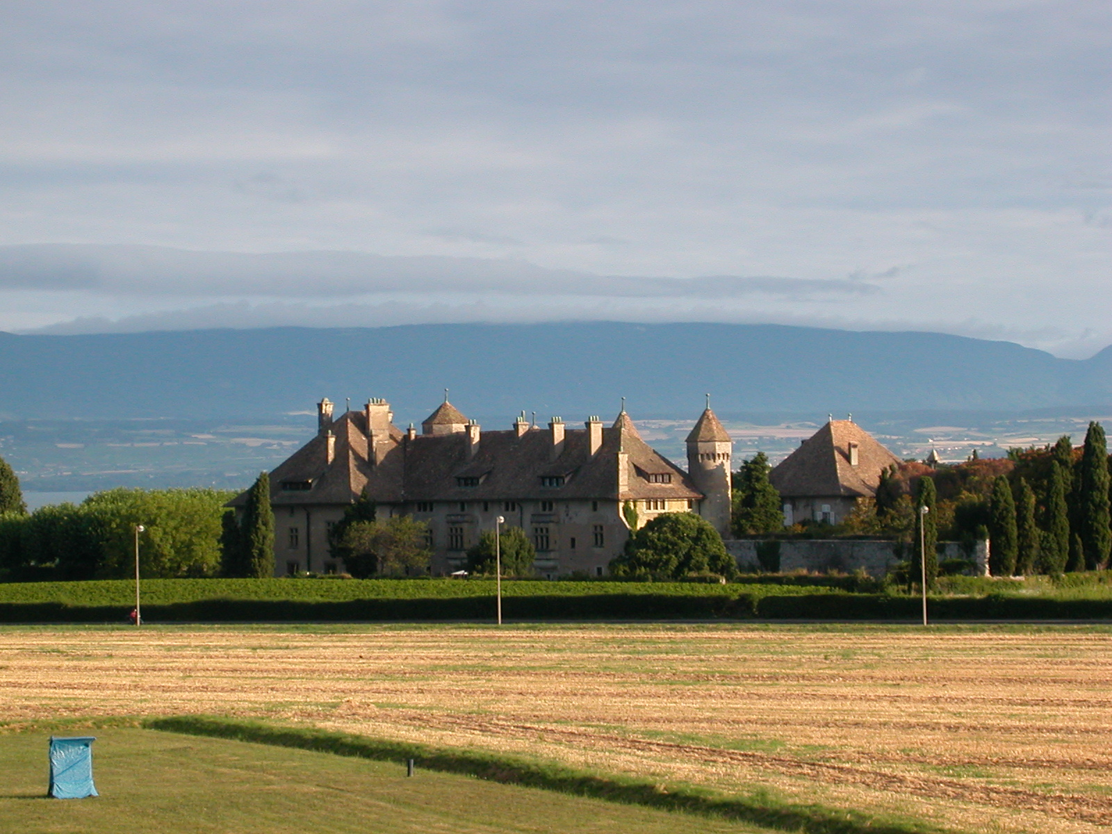 Ripaille Castle and its vineyard in Thonon-les-Bains